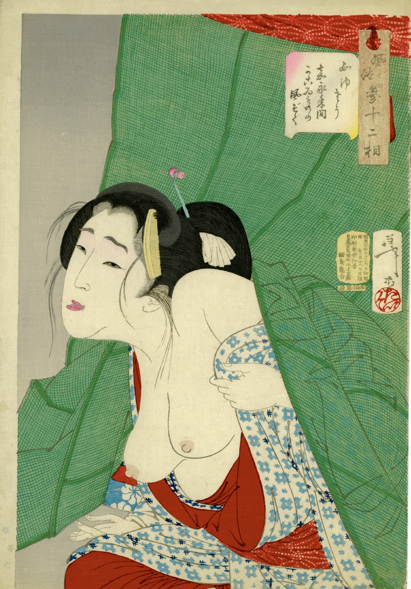 Looking itchy - The Appearance of a Kept Woman of the Kaei Era (1848-1854). No. 16 in the ukiyo-e print series Thirty-Two Aspects of Customs and Manners.